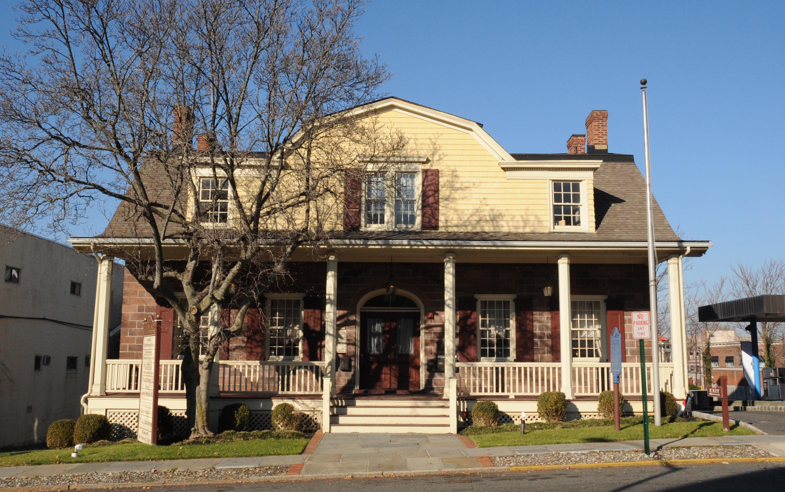 BUILT CIRCA 1800 BY JOHN G. BENSON, A FARM AND A MILITIA CAPTAIN FROM 1794 TO 1797. IT IS A POST-REVOLUTIONARY WAR DUTCH COLONIAL LOCATED ON LAND CONFISCATED FROM REVEREND GARRET LYDECKER, A TORY.